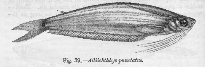 Ailiichthhys punctatus [sic] = Ailiichthys punctata Day, 1872 / Ailia punctata (Day, 1872)